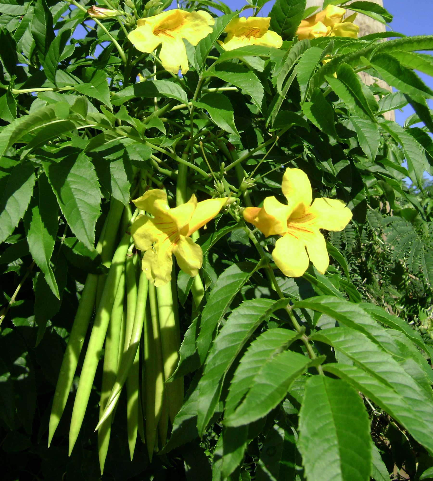 Tecoma stans; flowers & pods; (piti) an obnoxious weed in Tonga